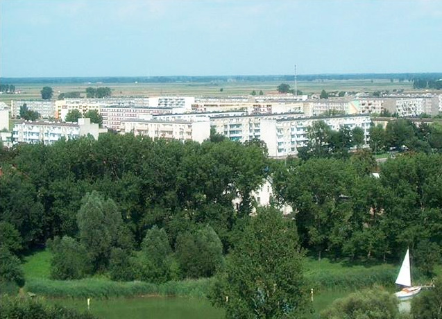 Zagople district in Kruszwica, Poland